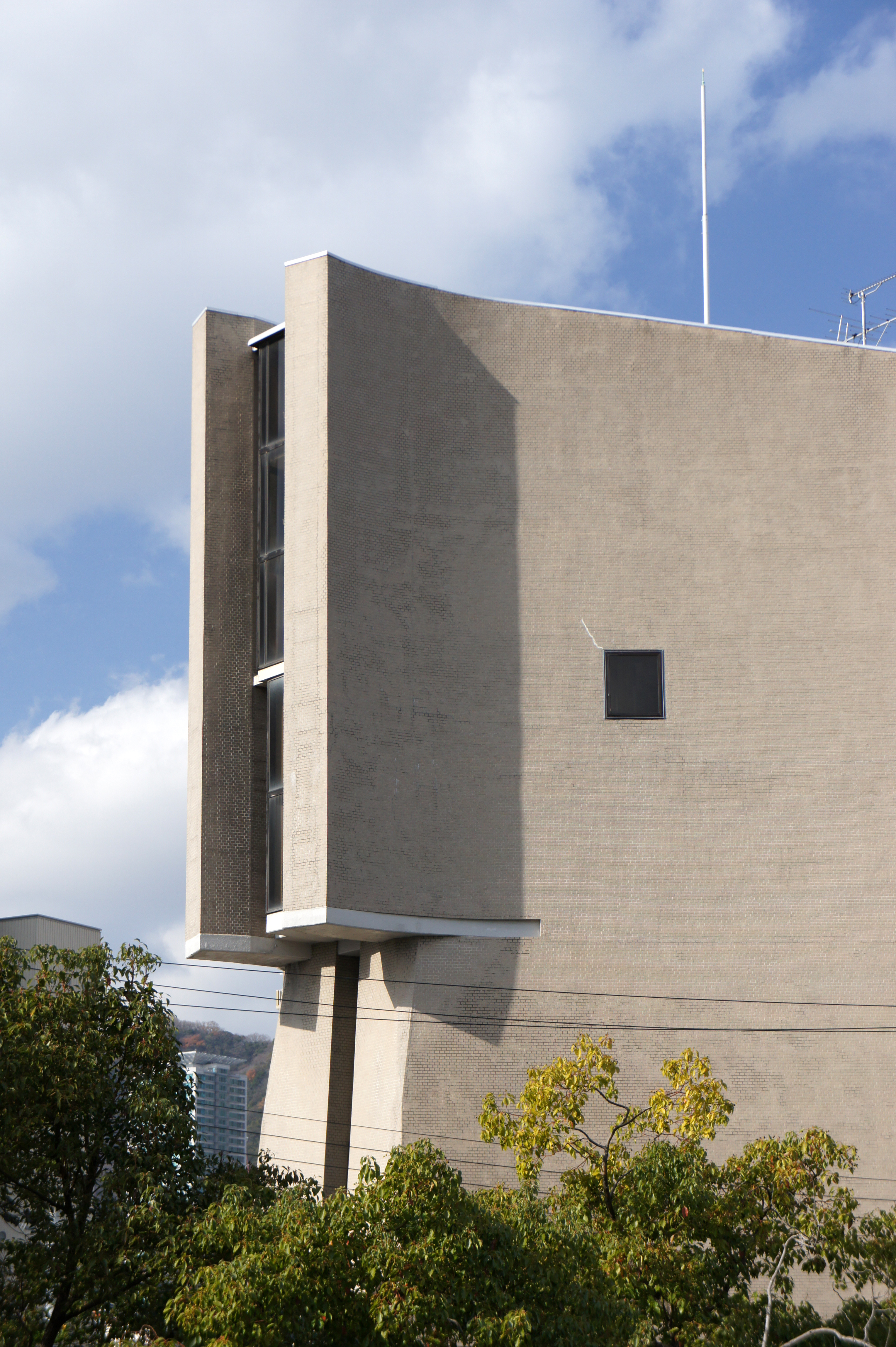 Nishiyama_Memorial_Hall in Kobe, Hyogo prefecture, Japan